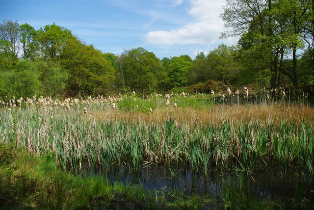 Backwarden Pond. A pond with bursting reed mace in 1282237 Nature Reserve. The Backwarden is owned by the National Trust and managed by Essex Wildlife Trust